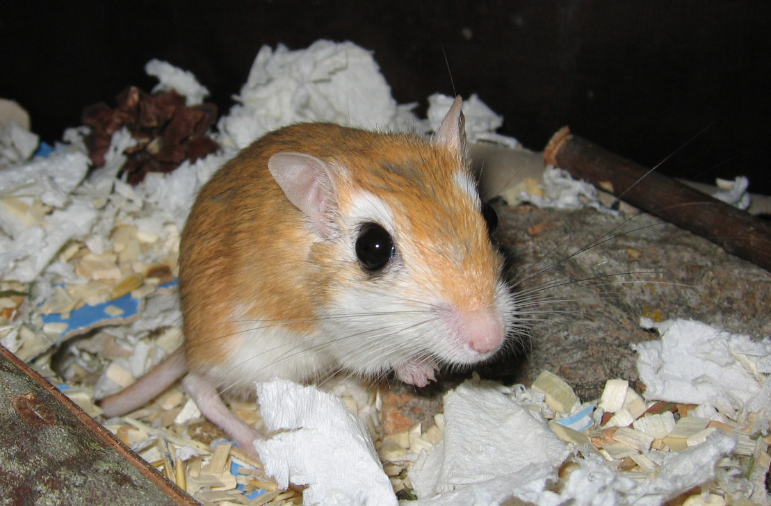 This is a typical Pallid Gerbil. This one has been nominated for many awards in Finland including, but not limited to, Grand Pet, Summer Pet 2007, and Pet of the Year 2007.